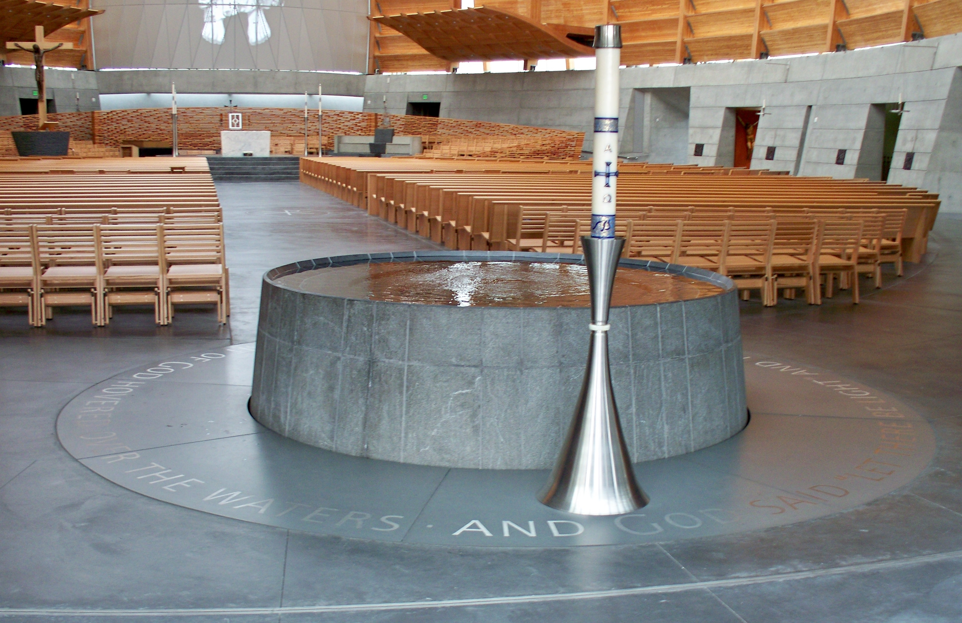 Internal shot / baptismal font/ Cathedral of Christ the Light - Oakland, CA